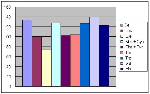 Amino Acid Score of Soba